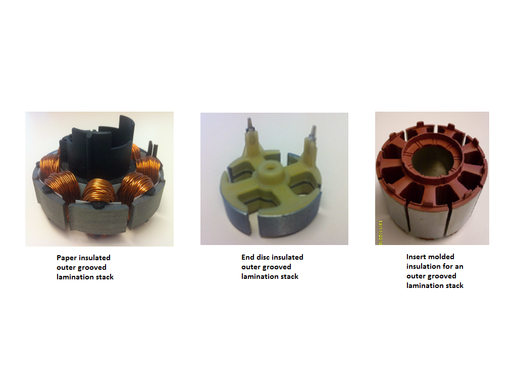 Vollblechschnittstatoren en